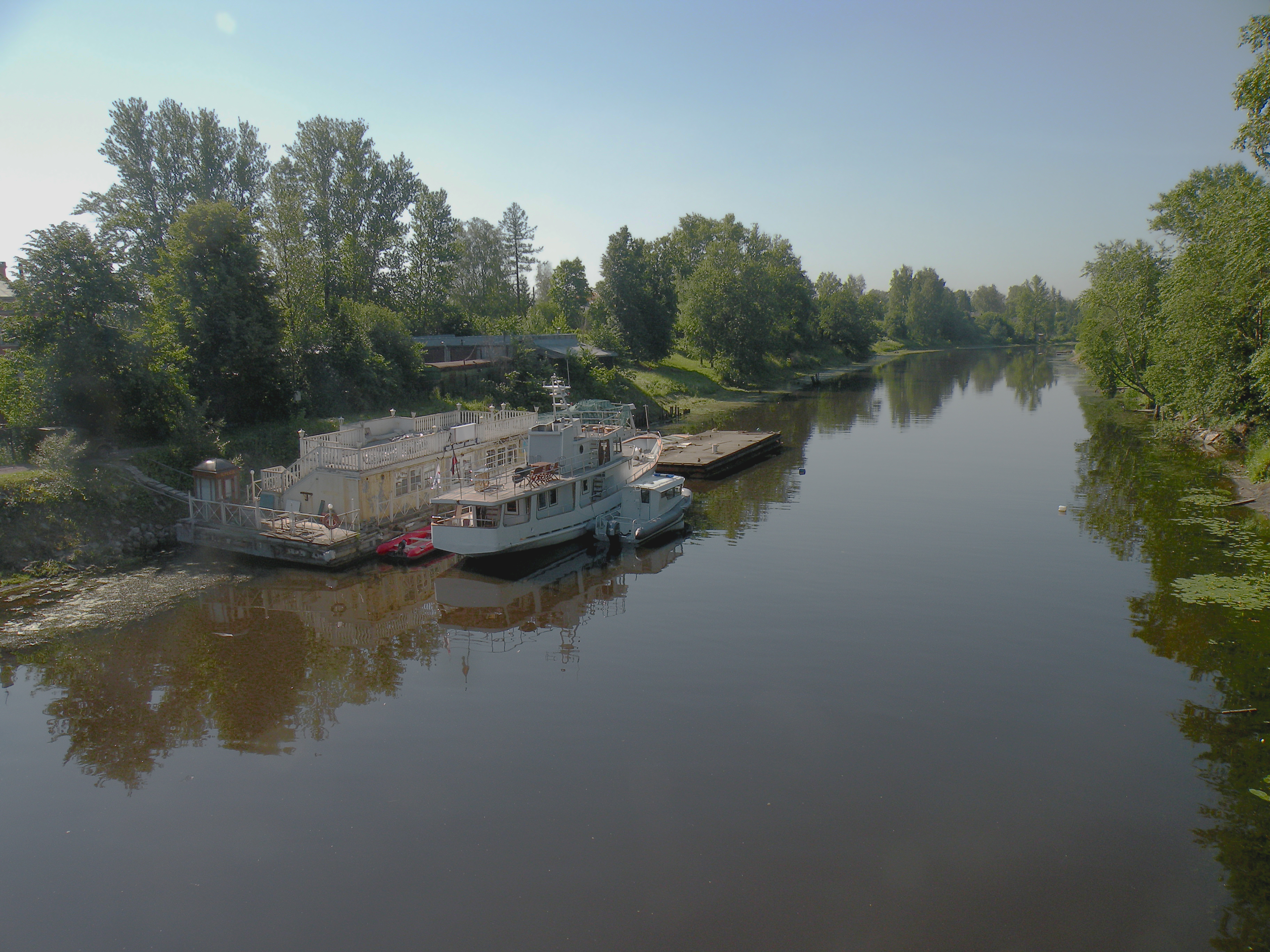 Izhora_(river).The place of "Newa battle"